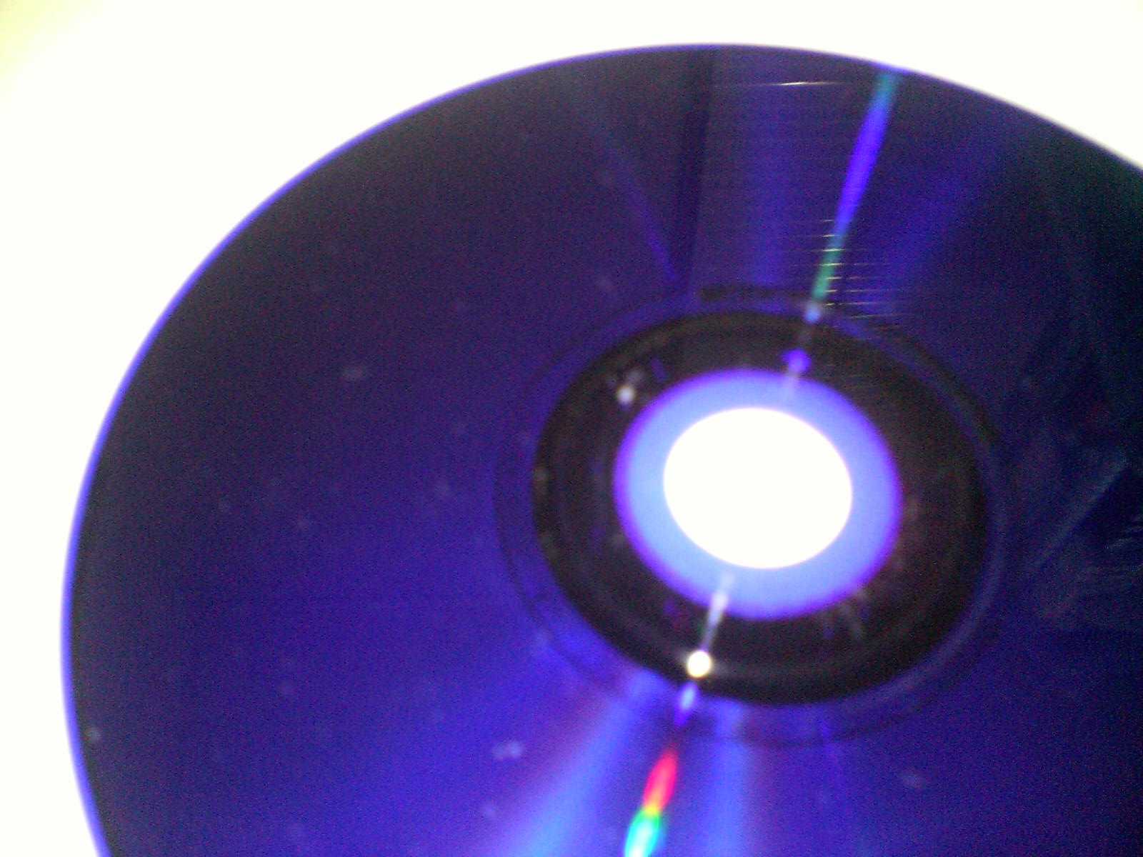 CD-ROM for PlayStation 2 (Sample:Dance Dance Revolution Party Collection)